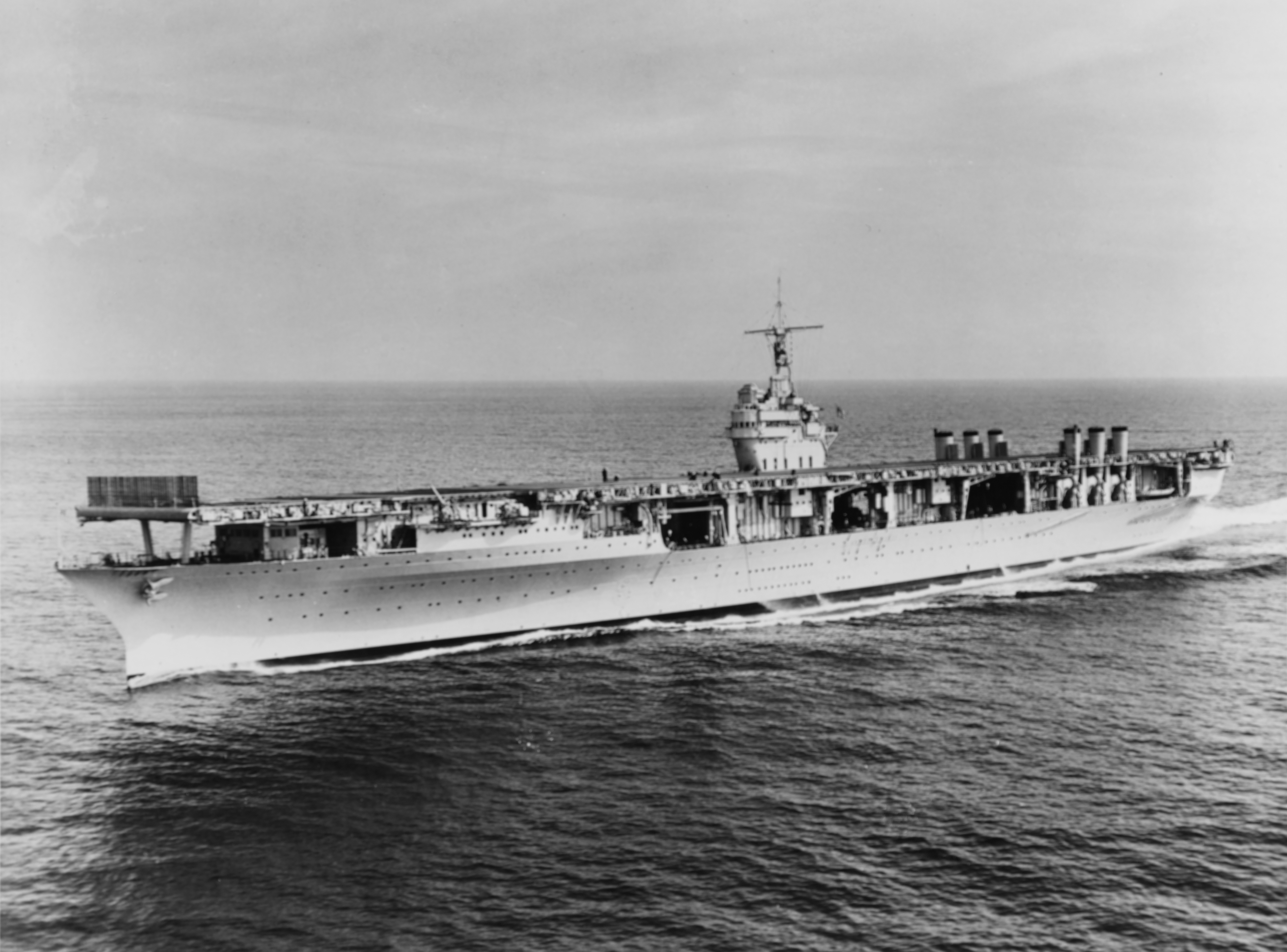 The U.S. Navy aircraft carrier USS Ranger (CV-4) underway at sea during the later 1930s.